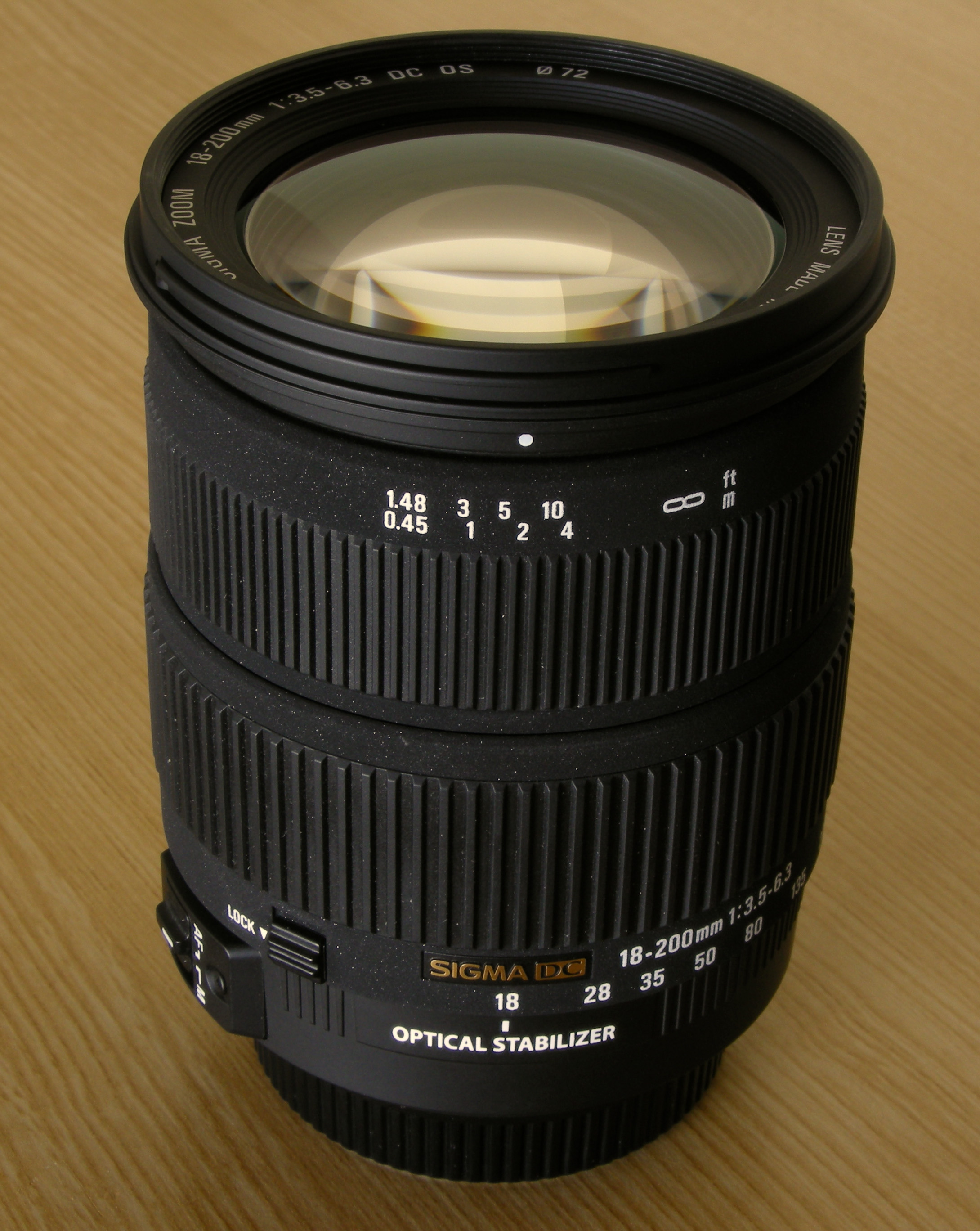 Sigma 18-200mm F3.5-6.3 DC OS /HSM